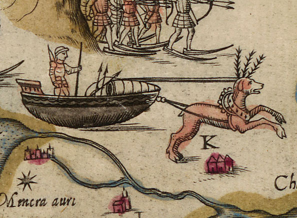 Reindeer pulling a sled on Olaus Magnus' Carta Marina from 1572.